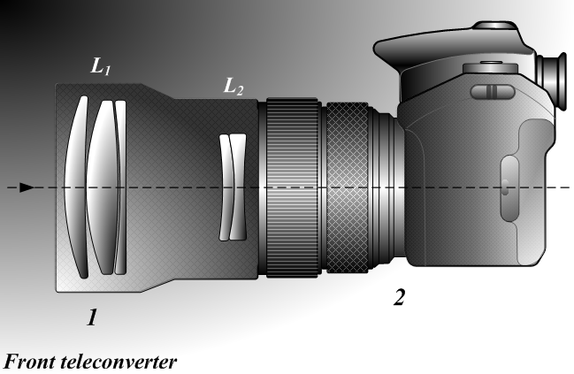 a Teleside converter, a converter that mounts in front of a camera lens (cross section).